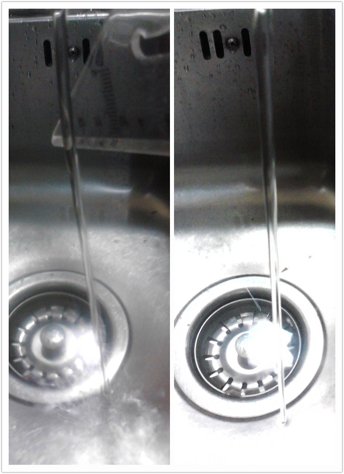 Compared with the original water column, it is attracted by the plastic ruler with electric charge.